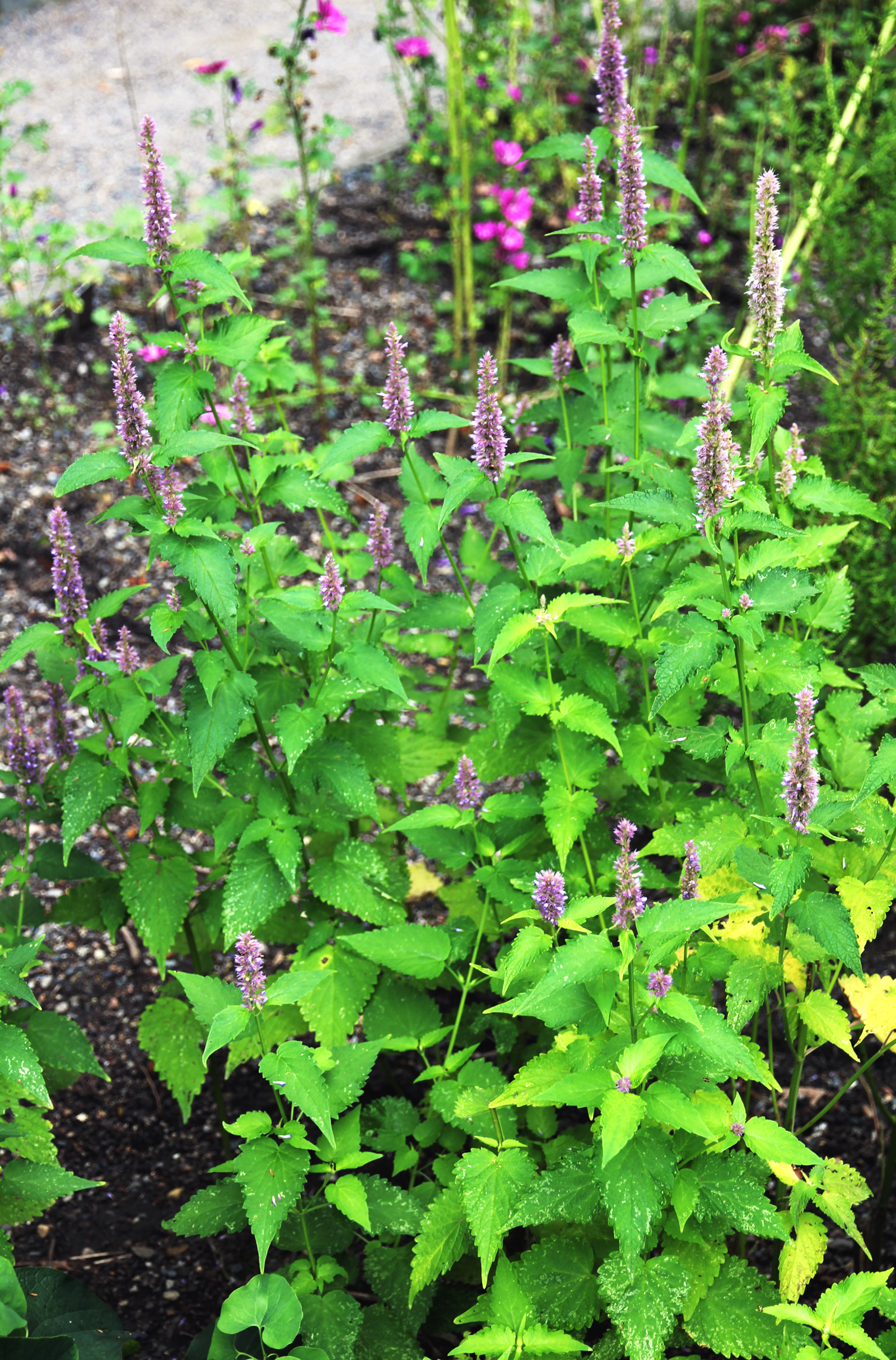 Plant with flowers Agastache mexicana from the Botanical Gardens of Charles University, Prague, Czech Republic